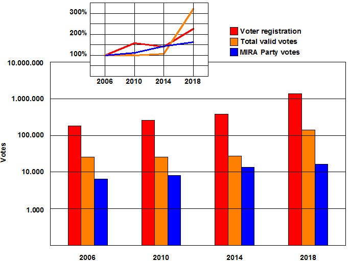 This figure summarizes the historic (2006-2018) election results of the MIRA Party in the Colombian expatriates Constituency. The data was taken from the final vote counting done by the National Civil Registry of Colombia. The subplot shows the votation trends. This file version is for use in the Wikipedia in English.